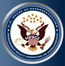 United States House Permanent Select Committee on Intelligence (United States House of Representatives)